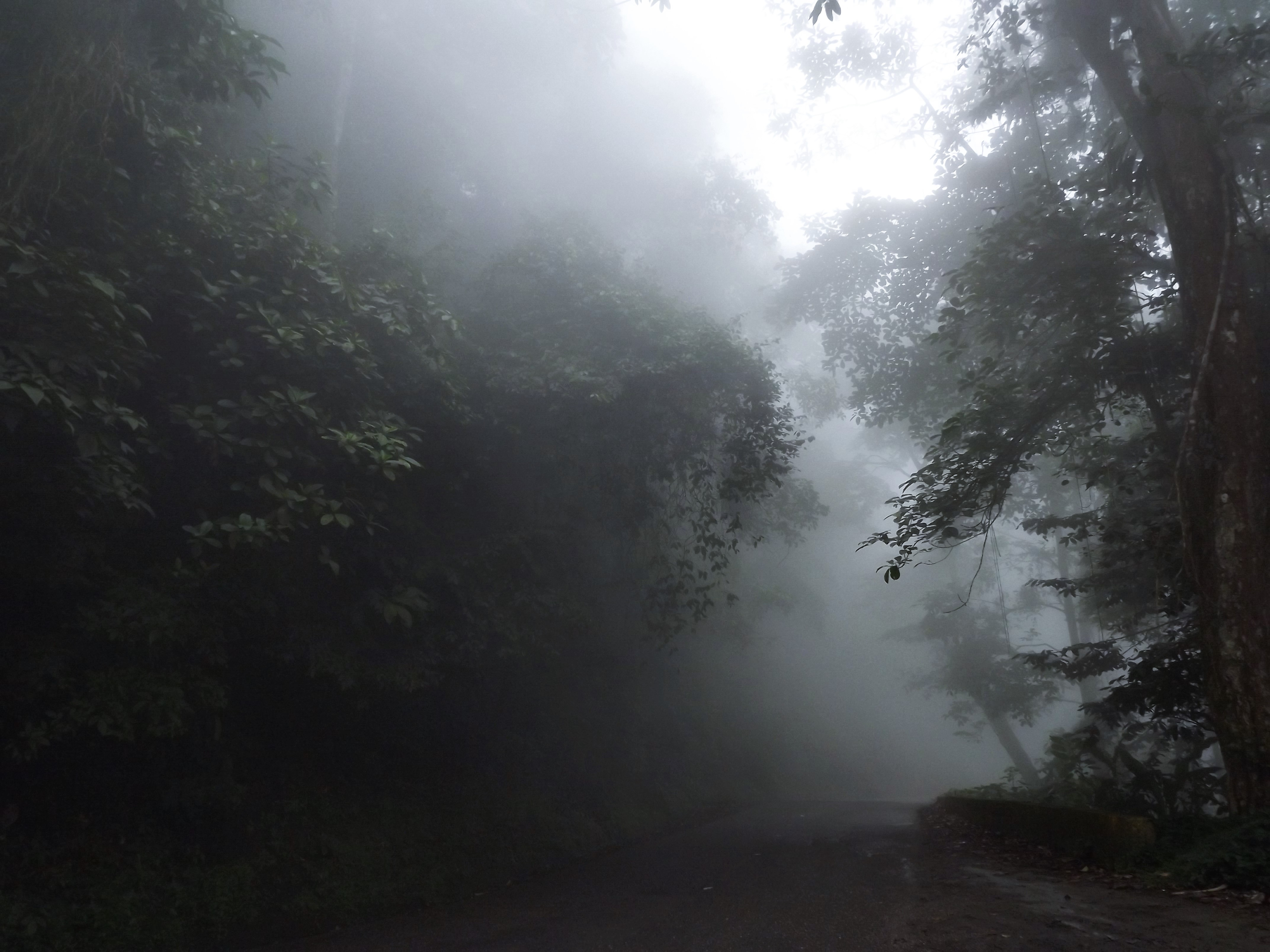 Humid Tropical Forest, Henri Pittier National Park